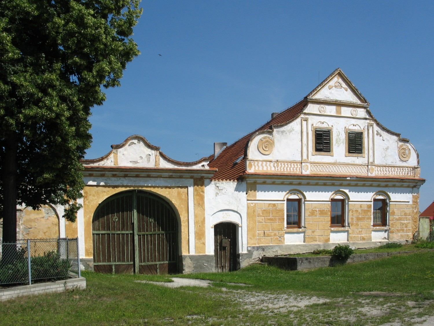 Zbudov, part of Dívčice municipality, České Budějovice District, Czech Republic